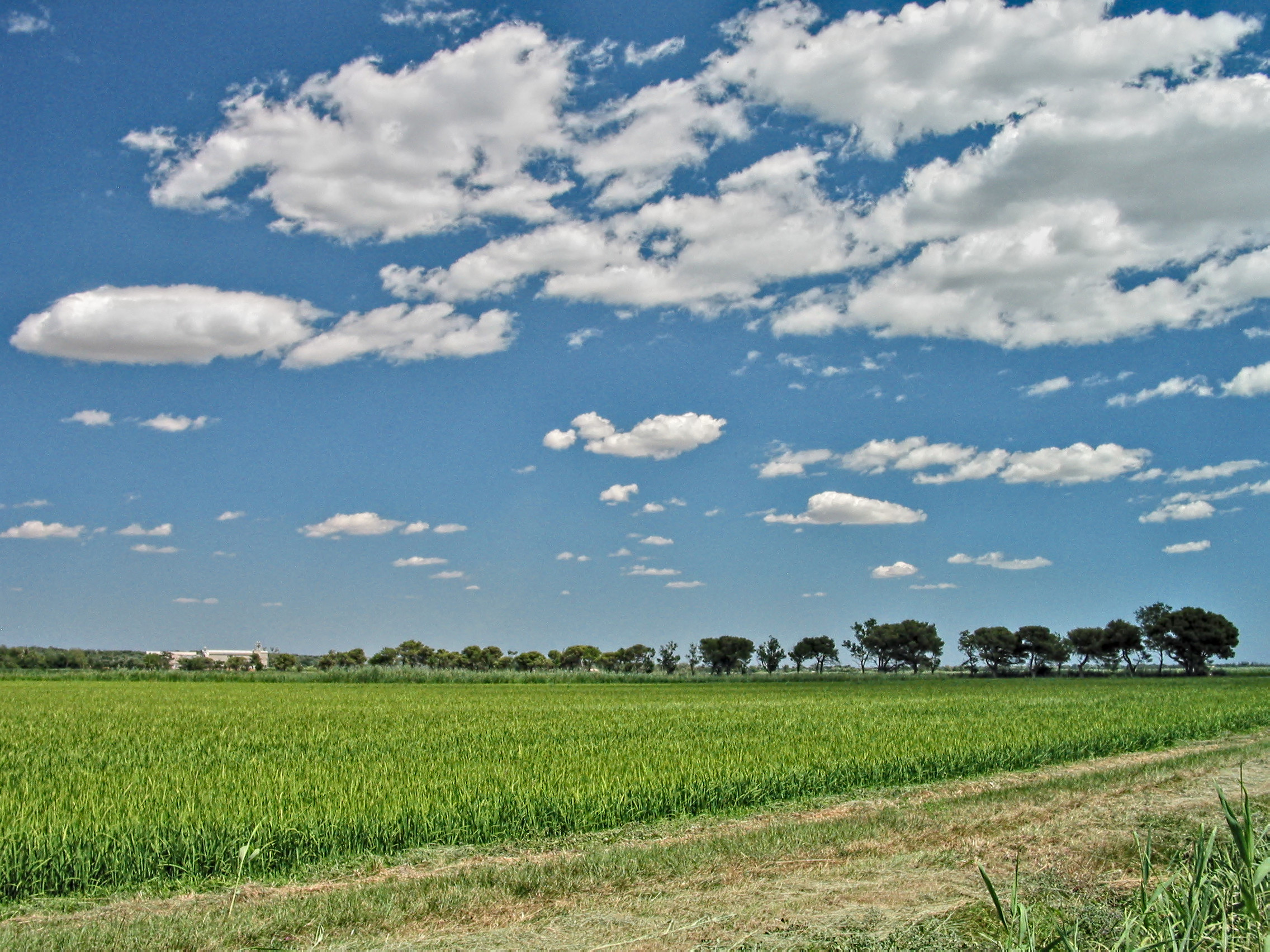 Rice field in the camargue. The typical yellowish green.